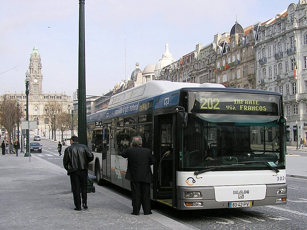 MAN NL263 Caetano CNG bus (#3024) at Praça da Liberdade, Porto, Portugal.